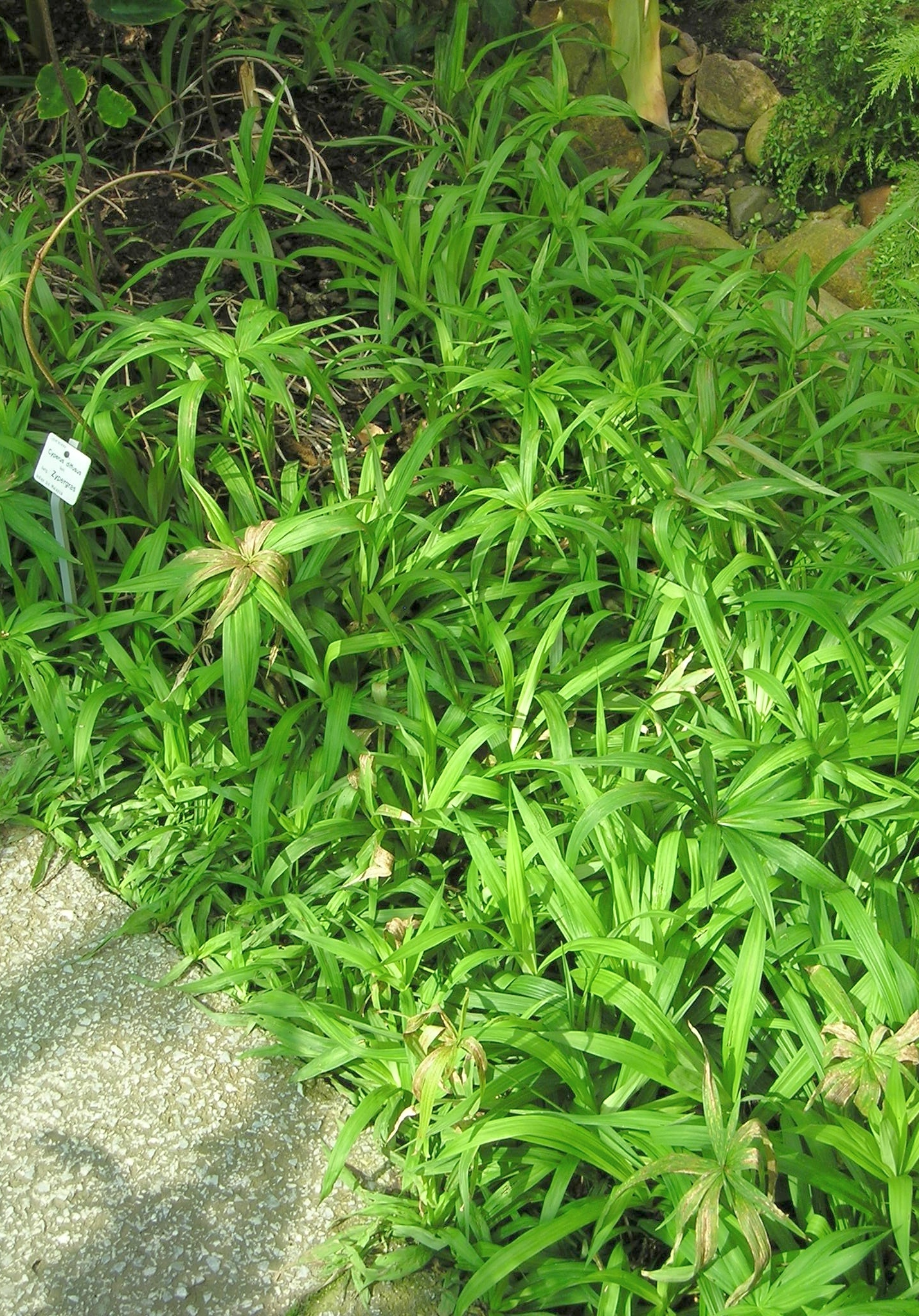 Zypergras (Cyperus diffusus) Botanischer Garten TU Dresden, April 2009 Creative Commons Licence BY 2.0 Quellenangabe / Credit: Photo by Maja Dumat